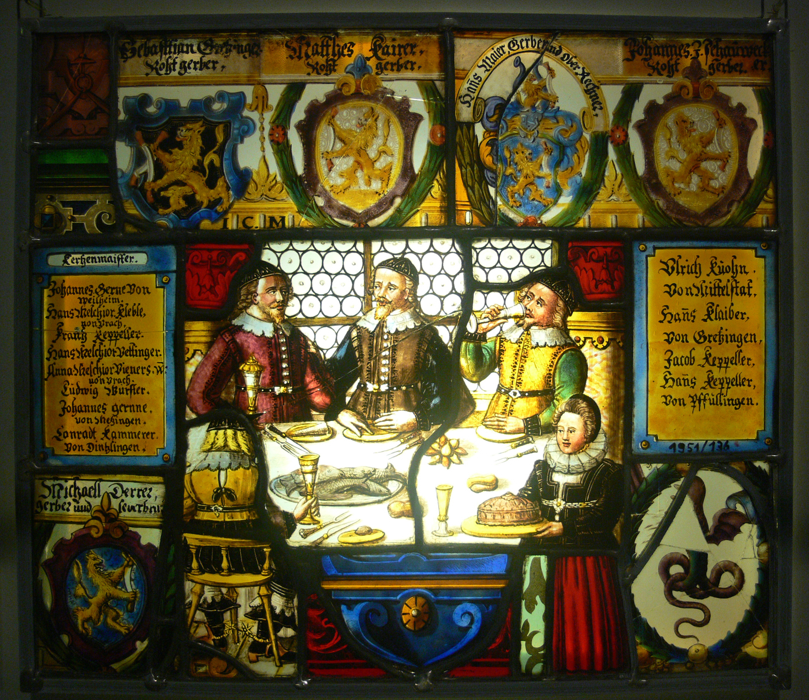 Round table with masters of the tanning guild (stained glass), by Hans Christian Maurer (Reutlingen), from Metzingen or Urach, 2nd half of 17th century Museum of folk culture in Waldenbuch (a branch of the Landesmuseum Württemberg)